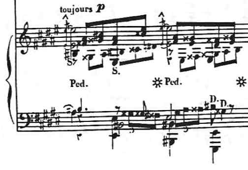 Nine part fugue, sheet music facsimile, from Quasi-Faust, the second movement from Grande sonate 'Les quatre âges', composed by Charles-Valentin Alkan.